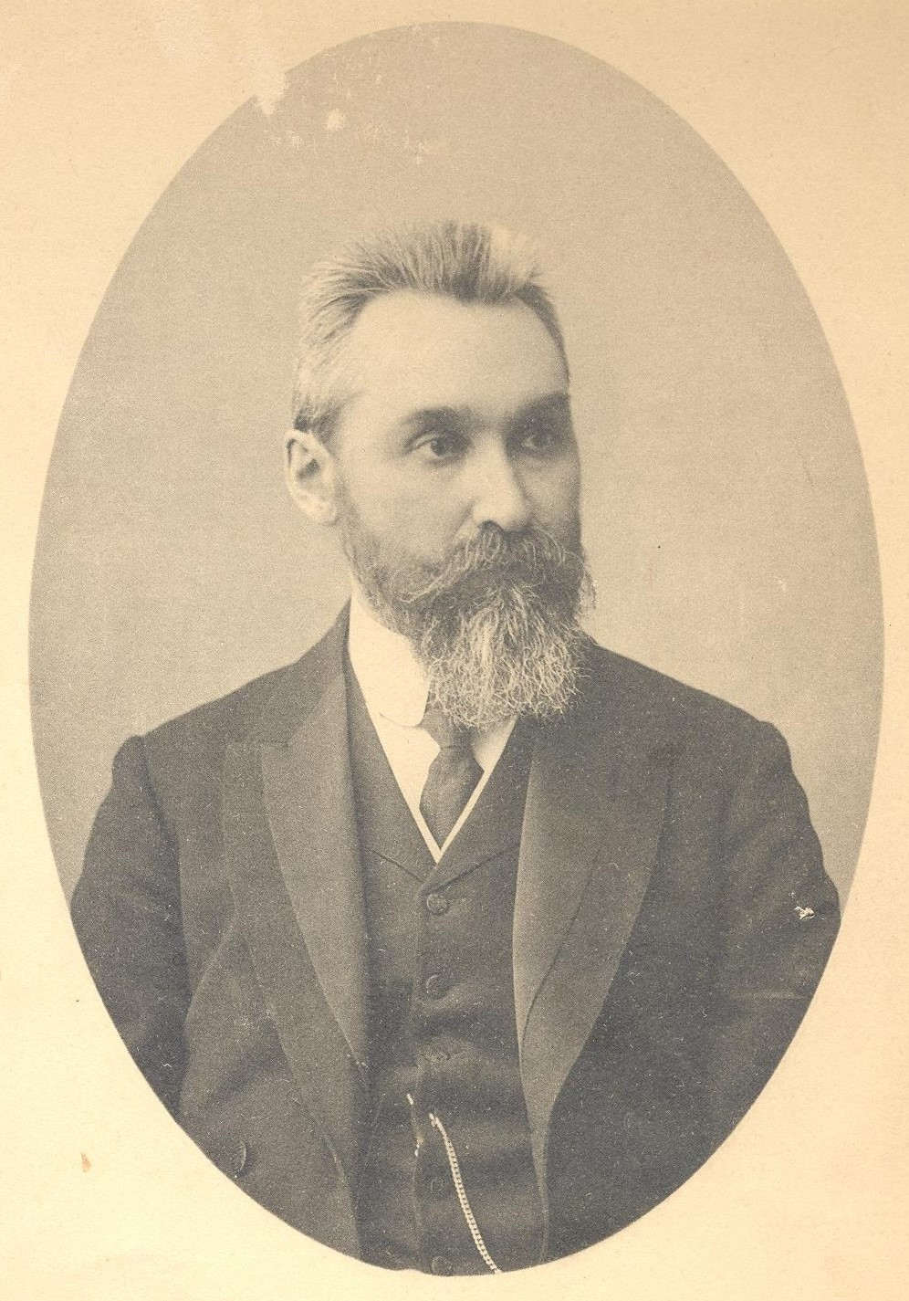 Pavel Ivanovich Novgorodtsev (28 February (12 March) 1866, Bachmut, Russian Empire — April 23, 1924, Prague, Czechoslovakia), Russian lawyer, philosopher, public and political figure, historian (author of books on the history of philosophy of law), first rector of Moscow Commercial Institute (Plekhanov RUE nowdays)